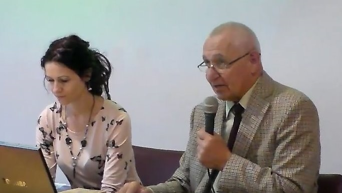 prof. dr. Alojzije Jembrih (b. 194=) Croatian linguist, historian, expert of the Kajkavian language (kajkavski) and Klaudija Sedar (b. 1980) Slovene linguists, latinist and expert of the Prekmurian language (prekmurščina) in Murska Sobota (2015)